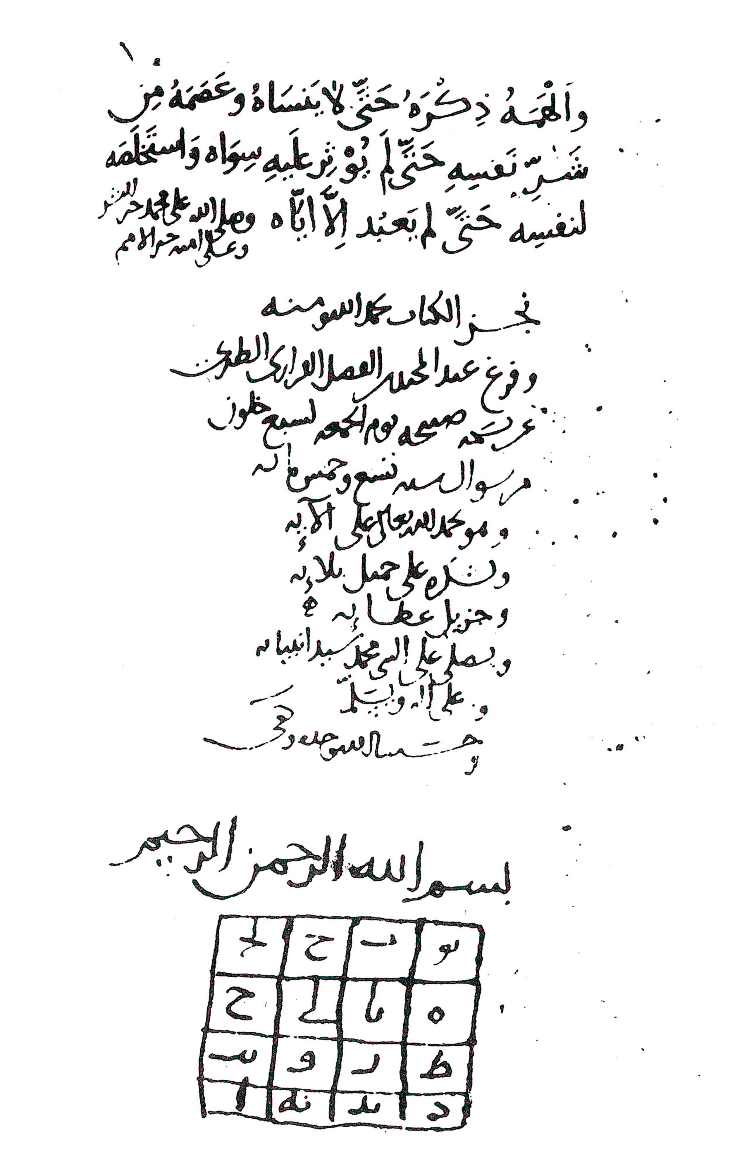 As reproduced in the frontispiece to McCarthy's Freedom and Fulfillment (Boston: Twayne, 1980)